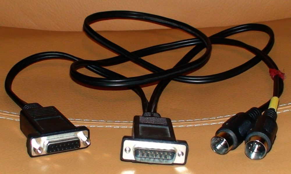 MIDI cable for the game port der soundblaster soundcard AWE of creative